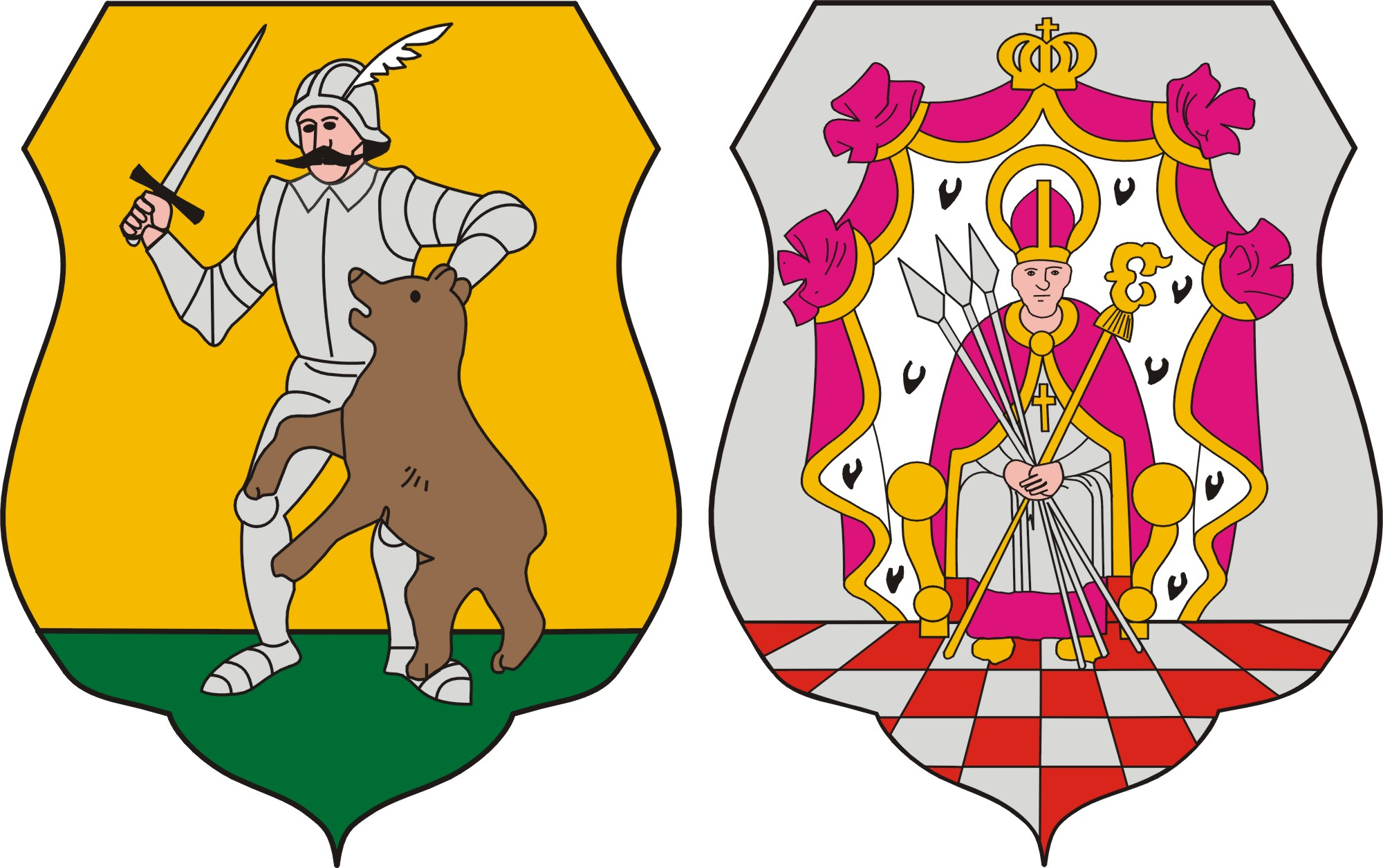 Coat of arms of Komárom-Esztergom megye, Hungary